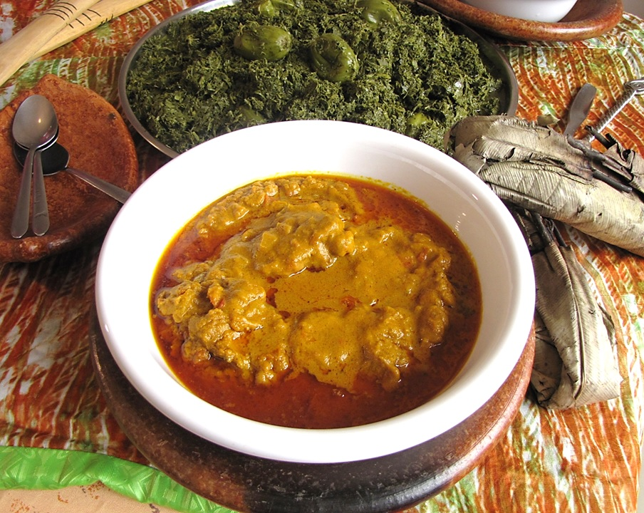 Moambe sauce, here covering chicken, popular across central Africa. Crushing cooked, fresh pulp from the fruits of the oil palm, Elaeis guineensis and adding water produces a high-calorie thick yellow liquid which is used in recipes. The meats - fish and or chicken or other meat as available are cooked first, then this palm liquid is added to cook. It is done when the red oil separates from the yellow sauce solids, this extra oil is often drained off. Shown here with a cooked platter of green cassava leaves 'saka-saka' accompaniment and cooked, leaf-wrapped 'chikwange' cassava 'bread.'